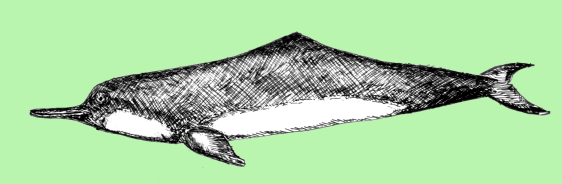 A sketch of a Baiji